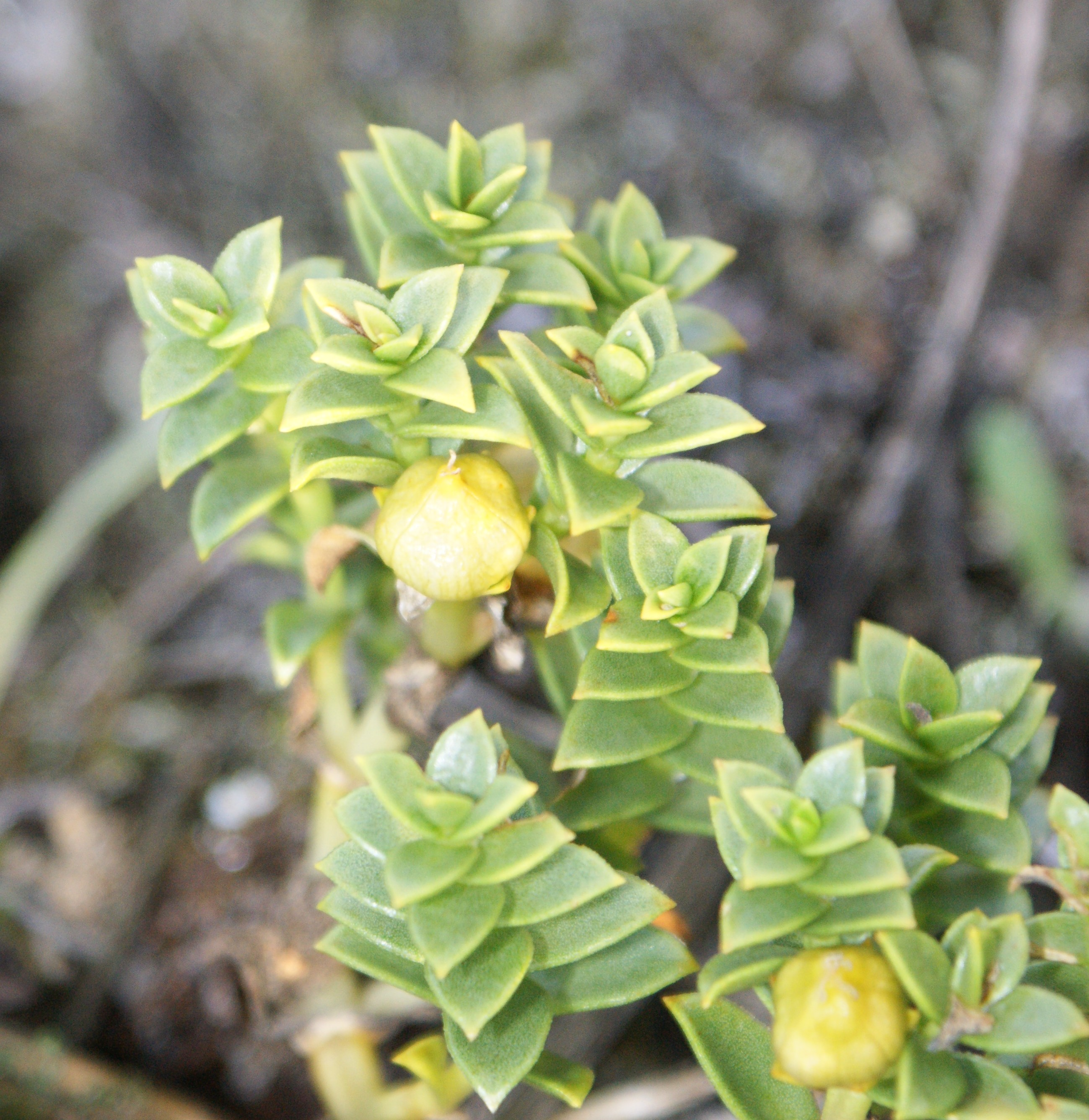 Honckenya peploides, fruiting. Darłowo (N Poland)